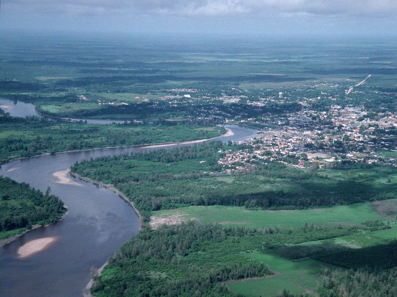 Aerial view of the Caeté River and the city of Bragança (Pará, Brazil)